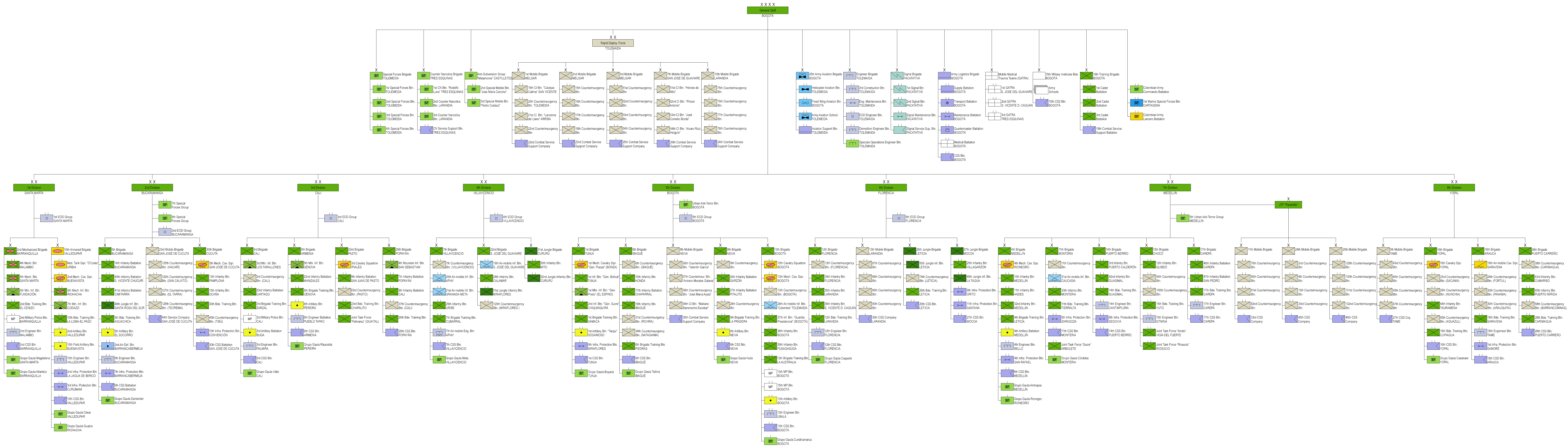 Colombian National Army Structure, June 2007 (sorry about the lower than usual quality, but at full resolution (8000x2700px), commons is unable to produce a thumbnail.)